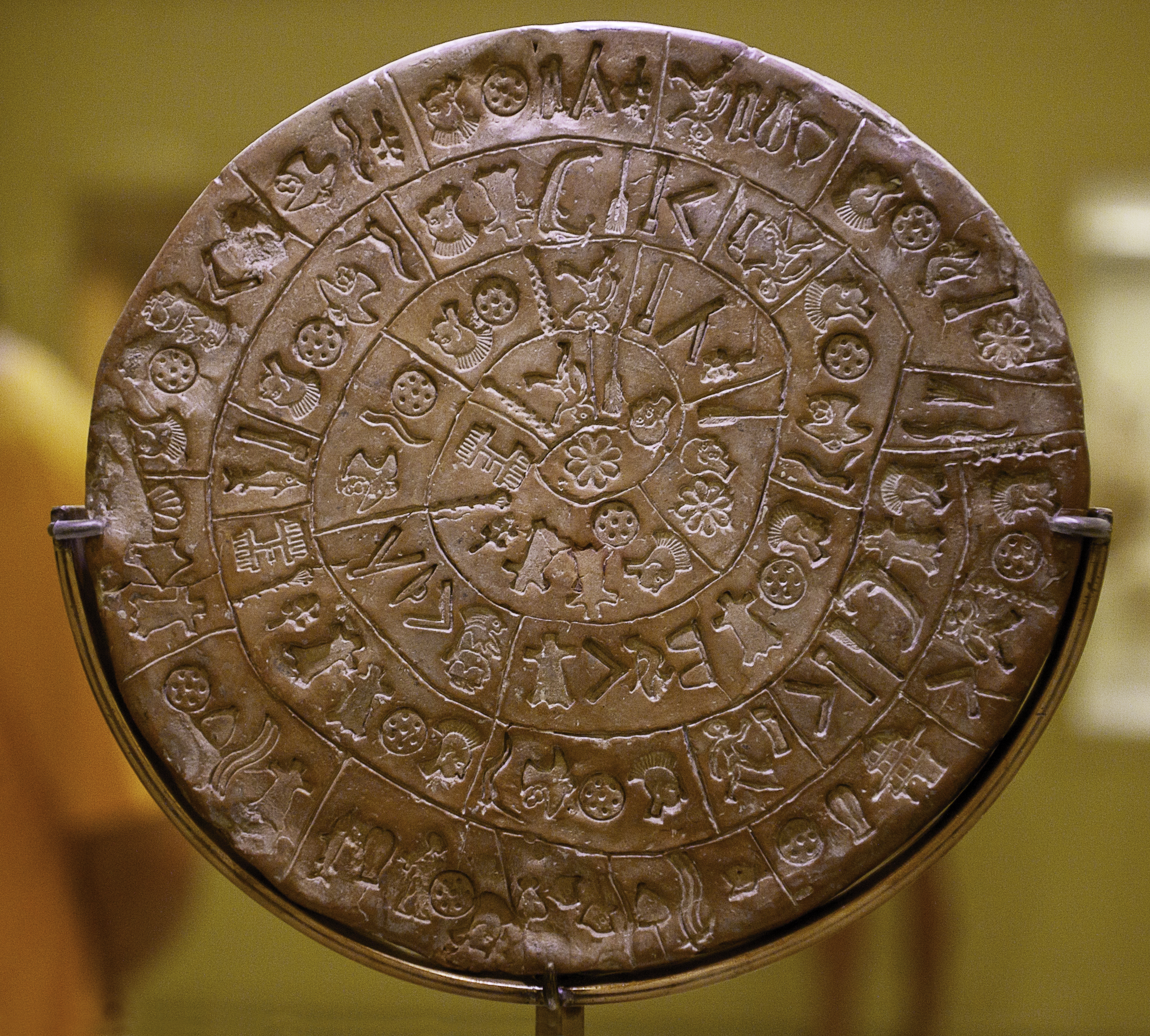 Phaistos Disk. Side A. Heraklion Archaeological Museum. Greece. 2010 July 22.